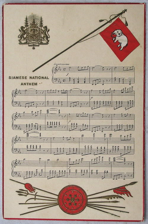 Postcard of the sheet music of "Sansoen Phra Barami" or the royal anthem of Siam/Thailand in late 19th or early 20th century (reign of King Chulalongkorn). This song was used as de facto national anthem of Siam until 1932 and still used only as the royal anthem until present time. N.B. In 1932, Siam had a revolution which change the country from absolute monarchy to constitutional monarchy. The music of "Phleng Chat", the current national anthem of Thailiand, was composed by Phra Jenduriyang in the same year and was officially adopted with lyrics in 1934 (lyrics was changed to current version in 1939).